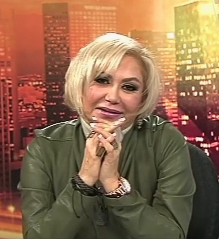 Shohreh Solati Interview, Shabahang program, VOA - 12 September 2016